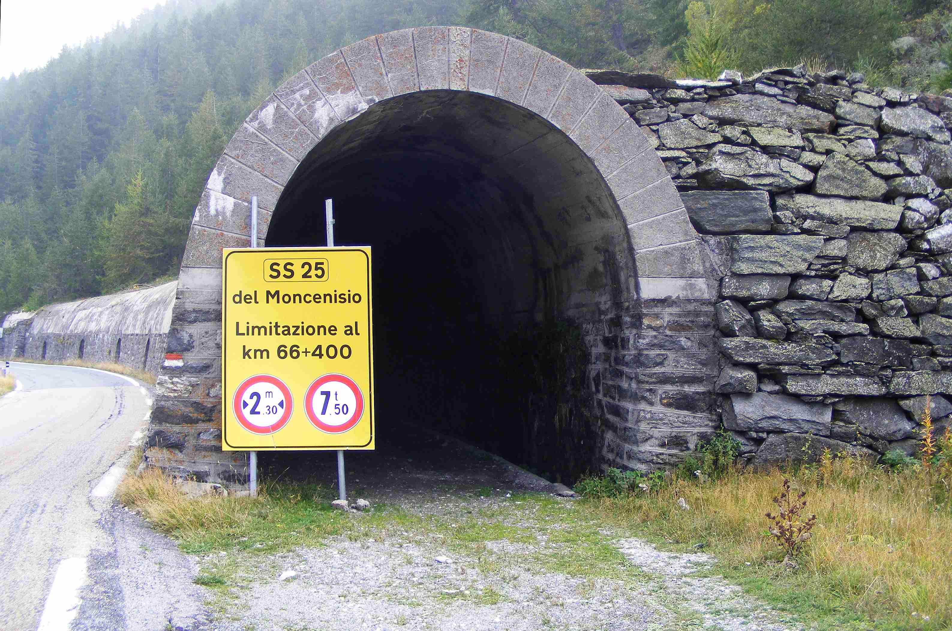 Remains of Fell railways on the side of National Road 25 of Colle del Moncenisio (To, Italy)